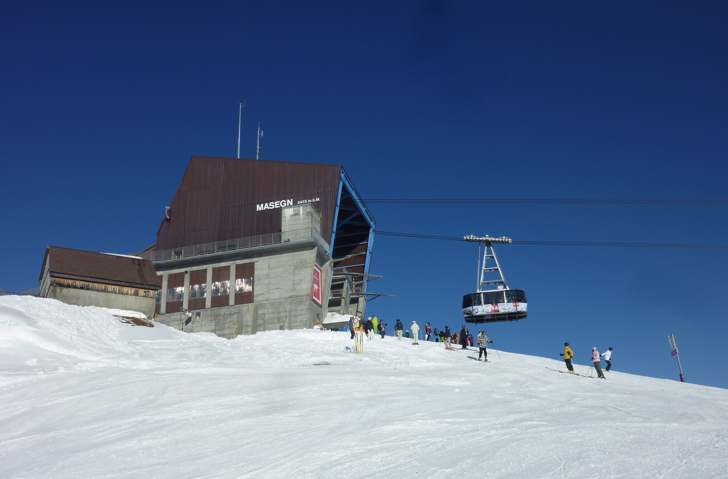 Crap Masegn Bergstation